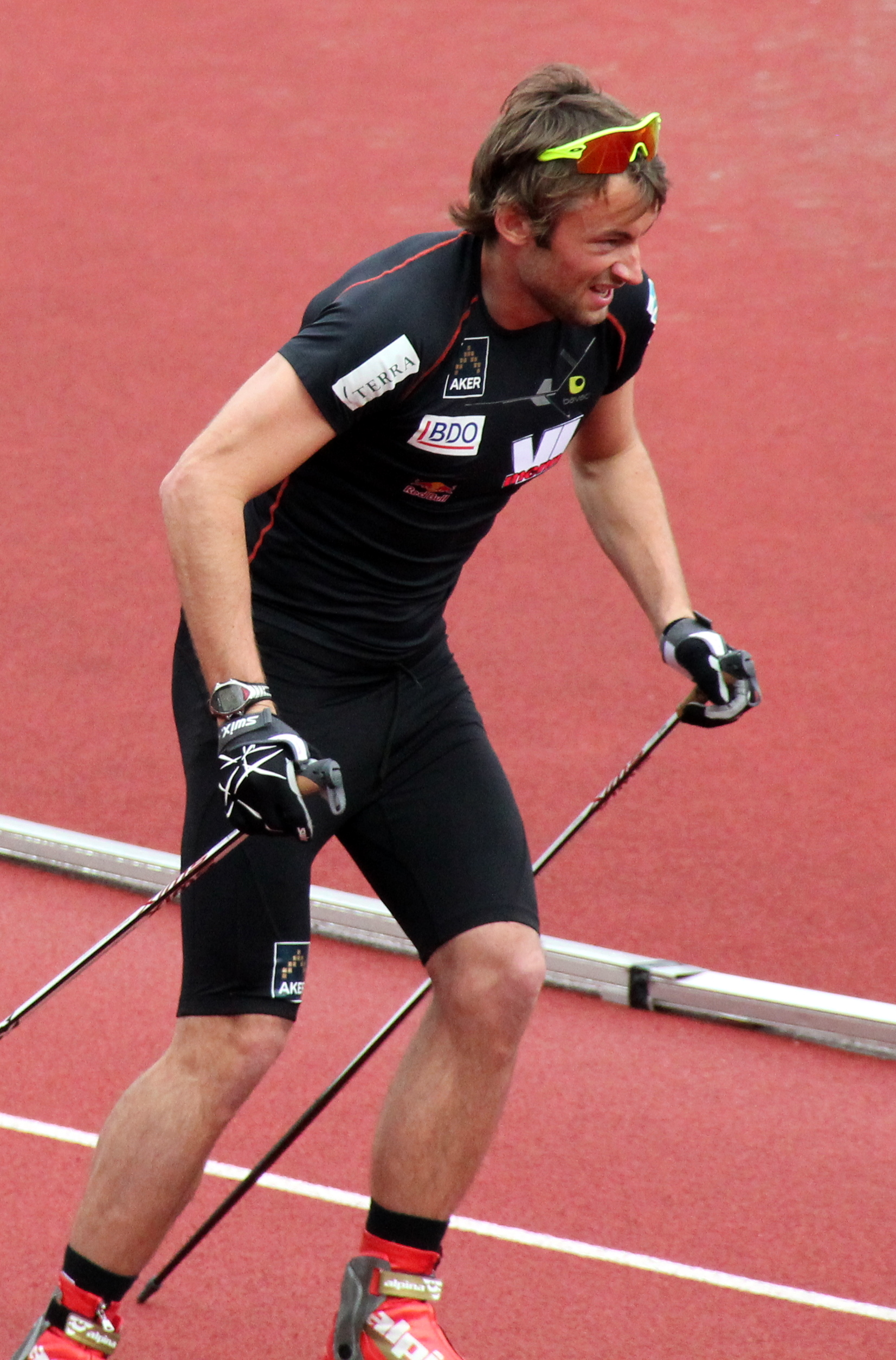 Northug at the 2011 Bislett Games